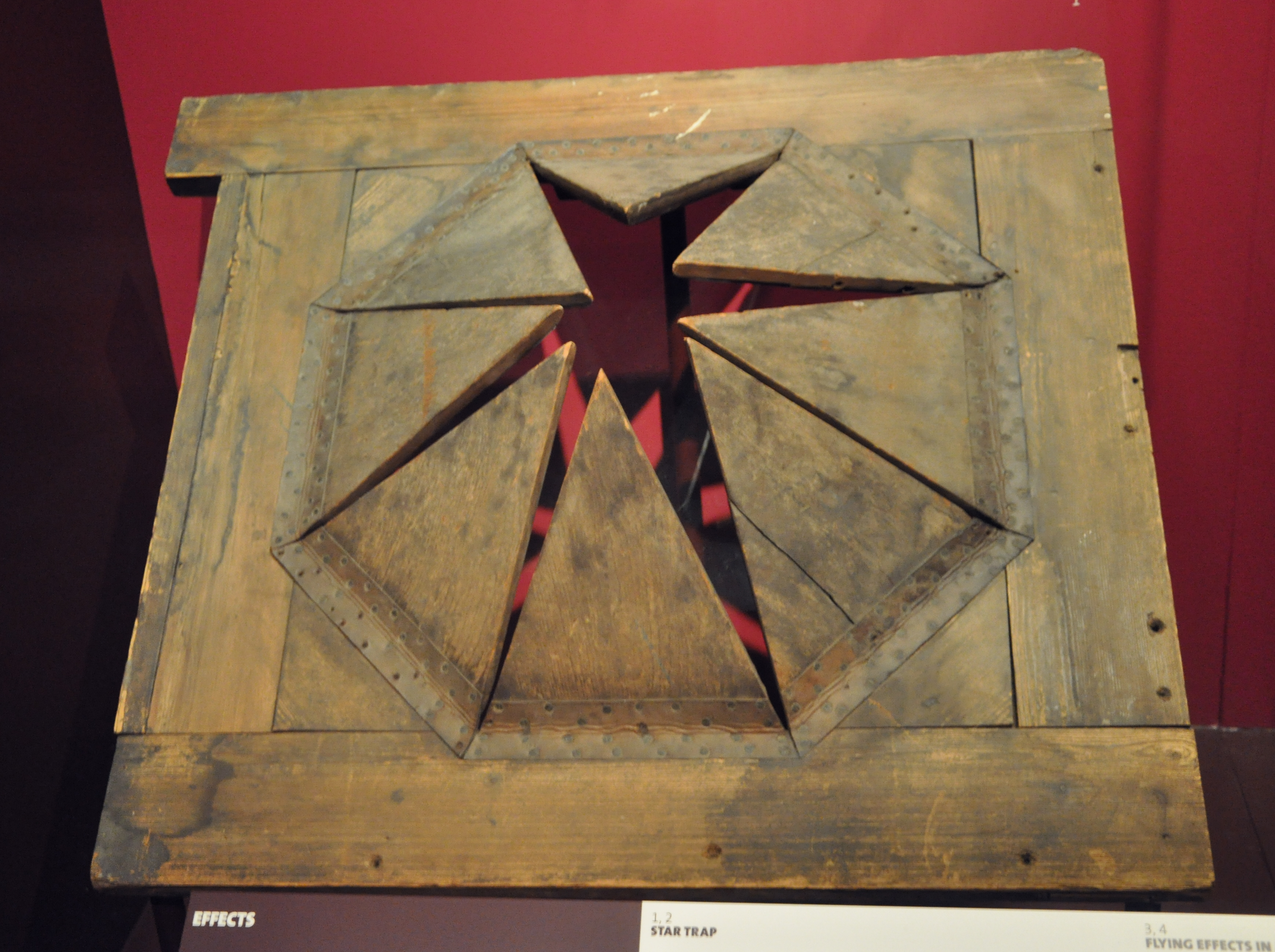 Star trap from the Theatre Royal, Drury Lane, London, 19th century Victoria and Albert Museum, London, Museum number: S.39-2008, Link